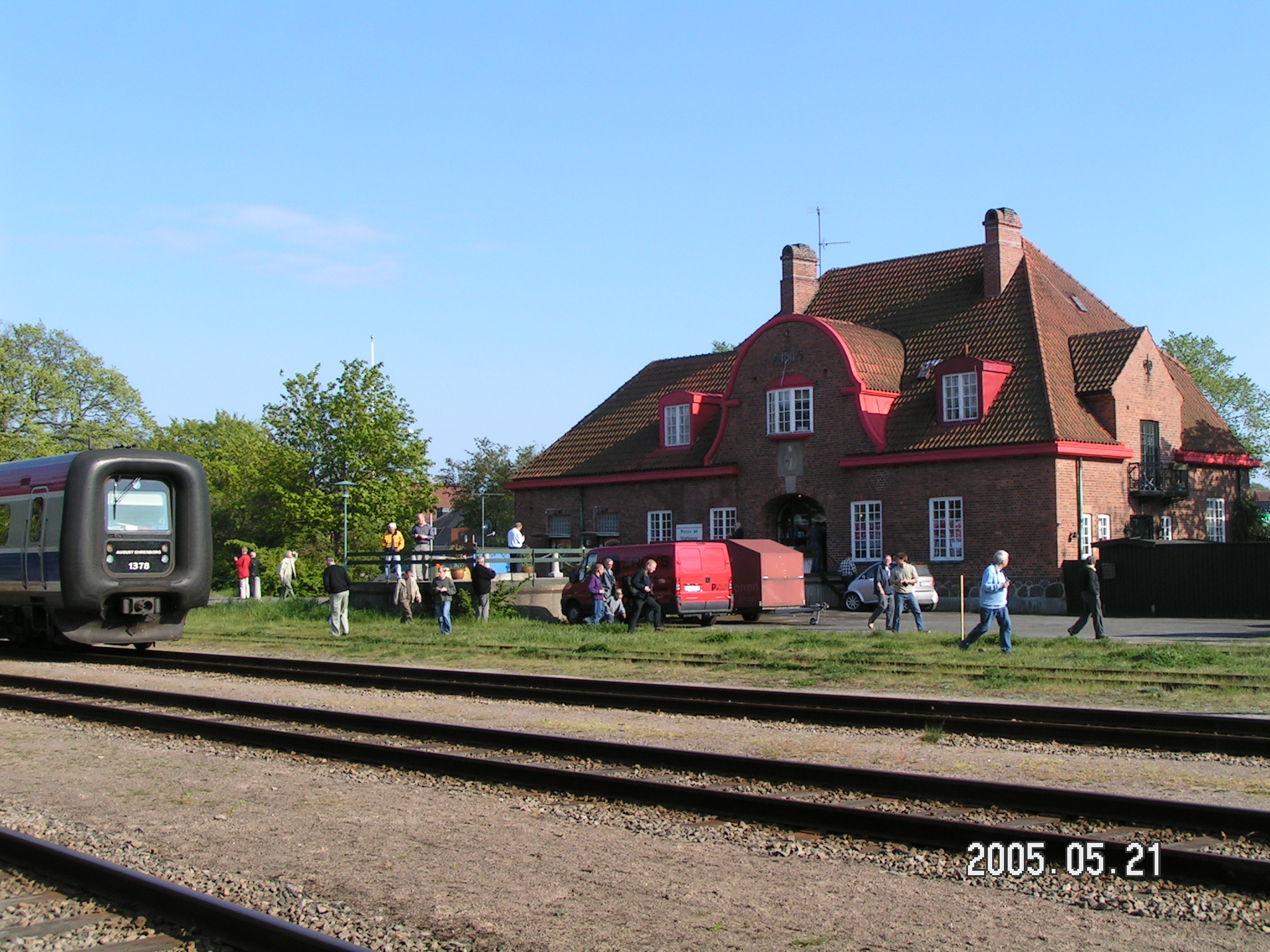 The railway station in Åhus, Sweden. Built 1912. Architect Lennart Håkansson